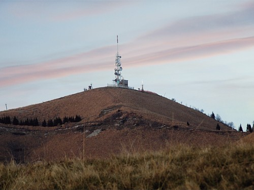 Top of the Mottarone Picture taken and edited by user Idefix November 4, 2006